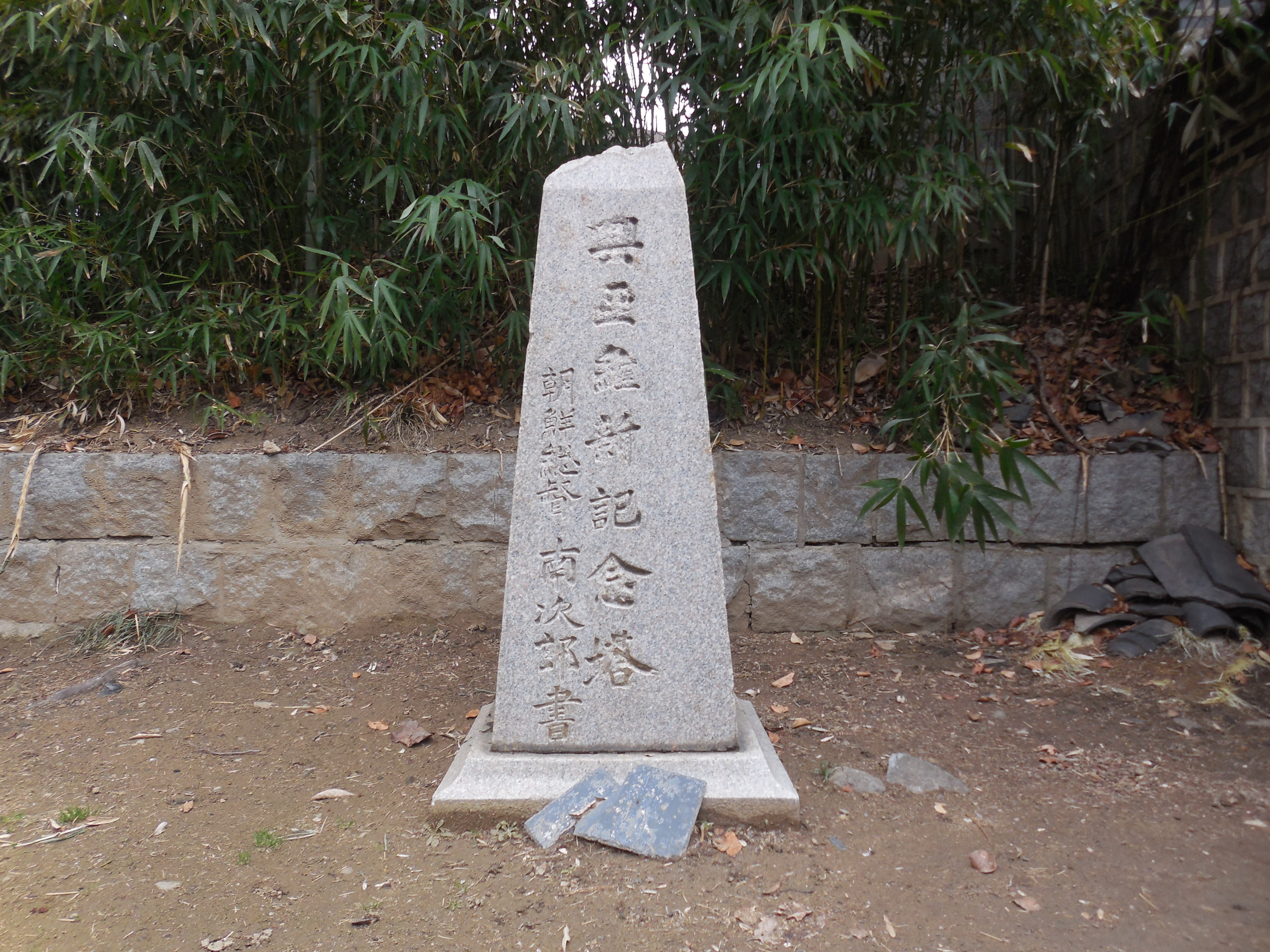 Tower for Rising Asia by Governor-General of Korea.